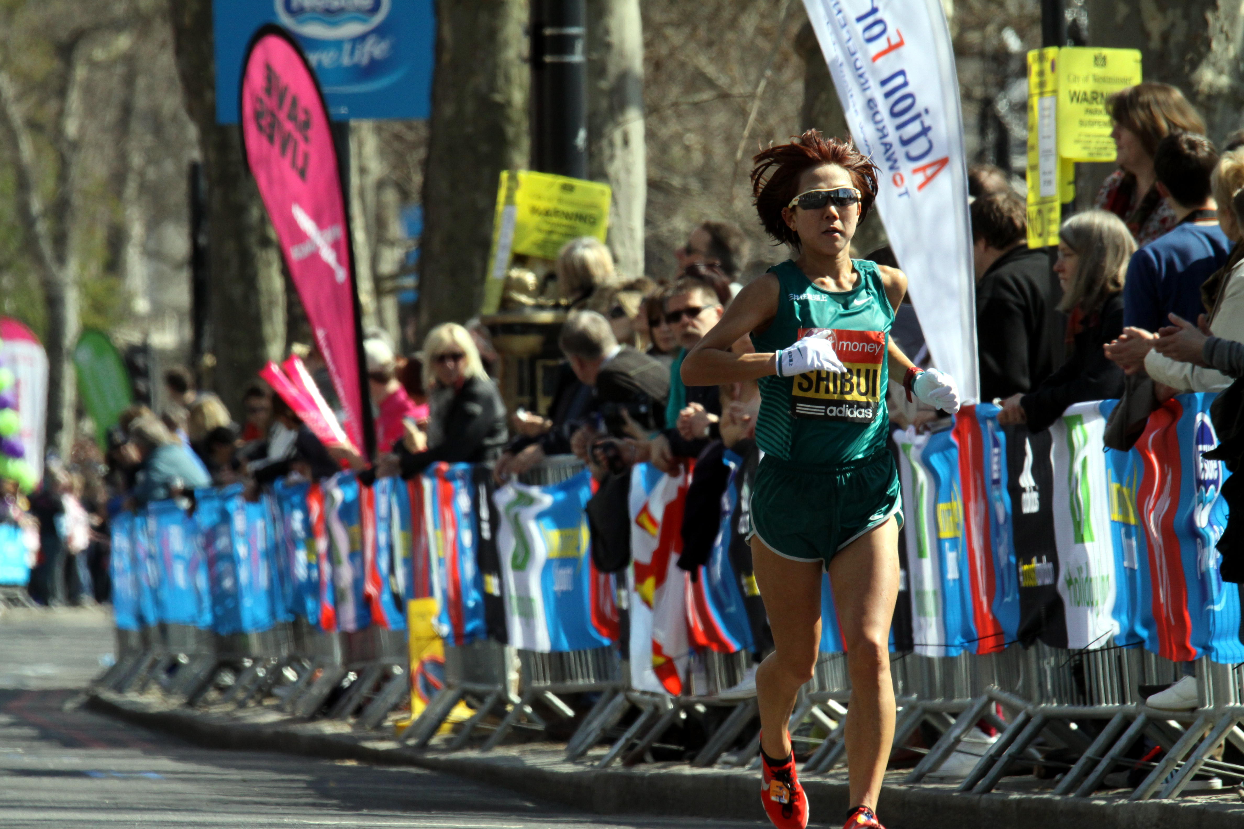 Yoko Shibui during 2013 London Marathon, photographed at Victoria Embankment, London, Great Britain. The making of this file was supported by Wikimedia UK.